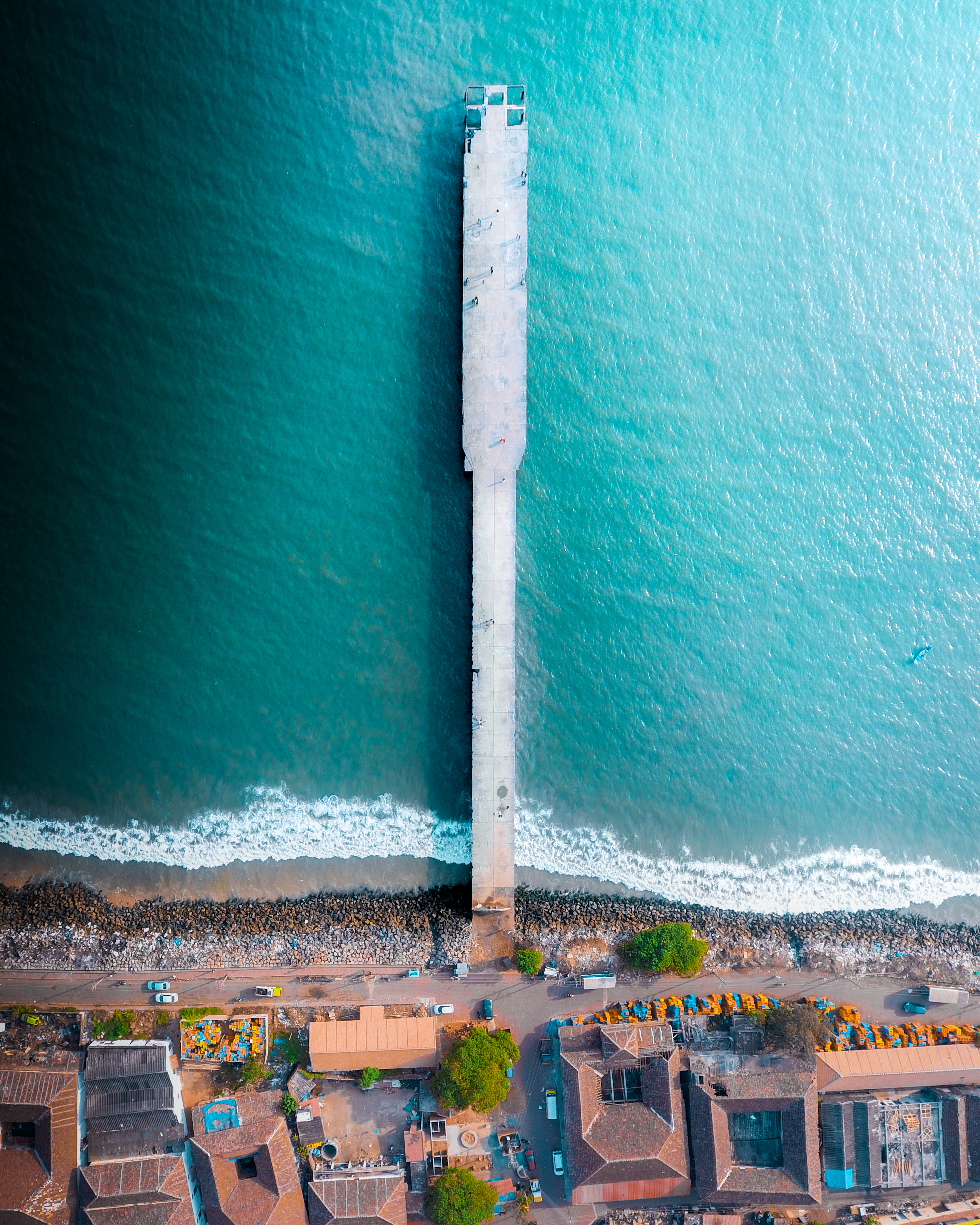 Aerial View Of Thalassery Pier-Shot By Droneholic